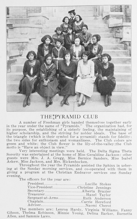 Pyramid chapter of Delta Sigma Theta — at Wilberforce University (Ohio) in 1922. (PD)